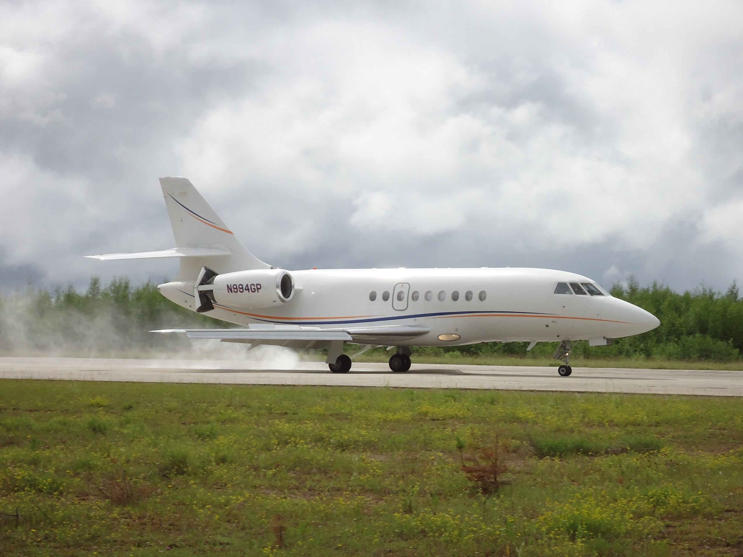 Dassault Falcon 2000 (number N994GP) landing in Ust-Kut Airport (Irkutsk Oblast, Russia).